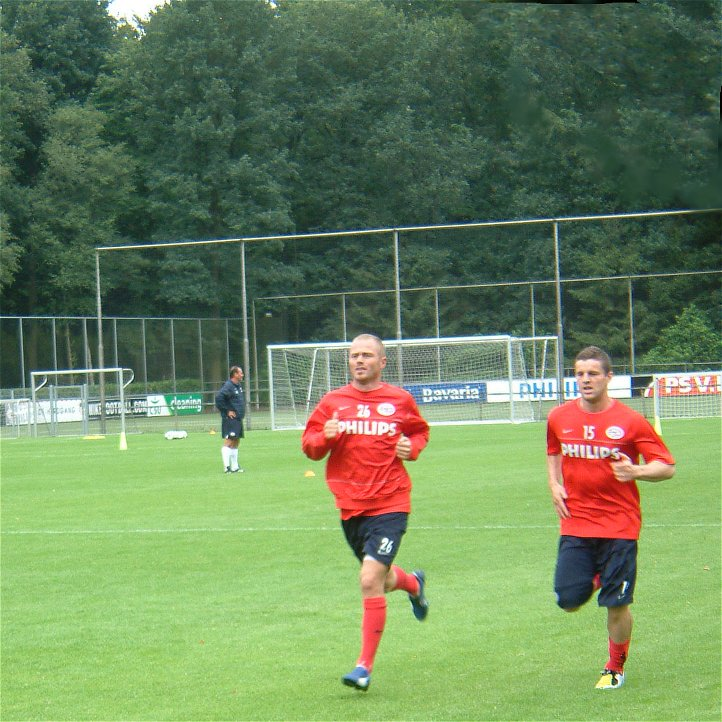 Tommie van der Leegte (nr. 26), PSV Eindhoven, de Herdgang training center; (nr 15 is Jason Culina)